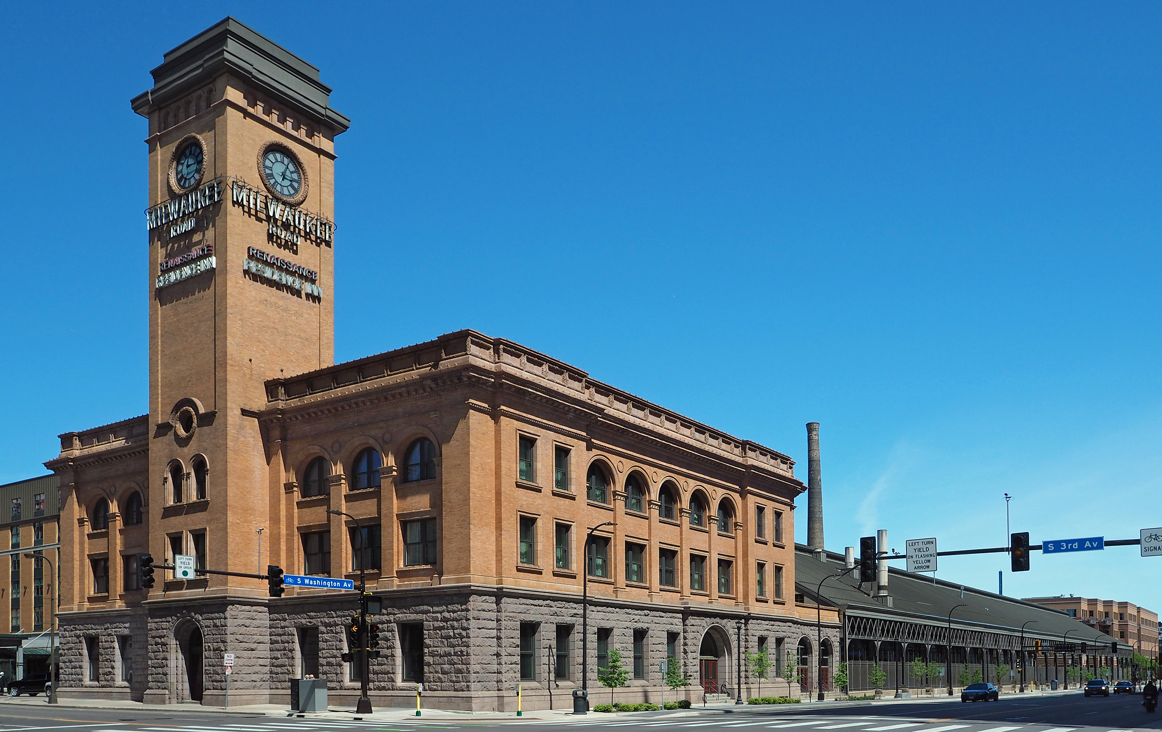 Milwaukee Road Depot, 201 3rd Ave S, Minneapolis, Minnesota, USA. Viewed from the west.